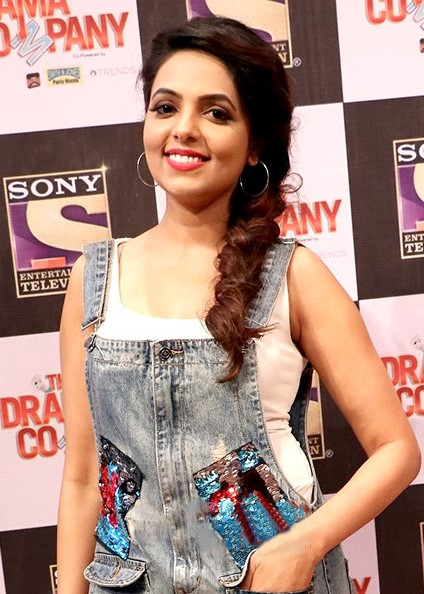 Sugandha Mishra attend the press conference of their show The Drama Company.